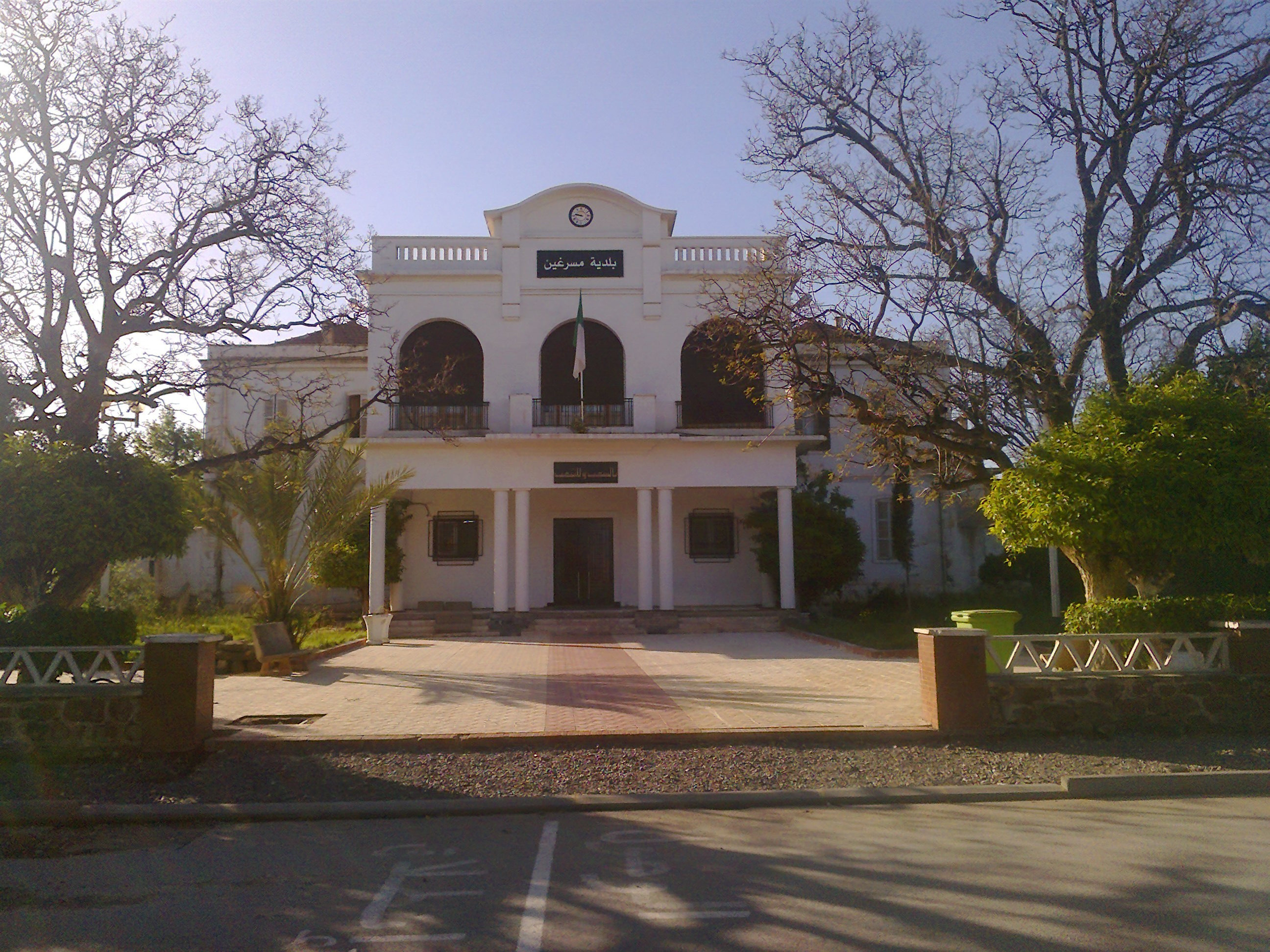 Misserghin TownHall